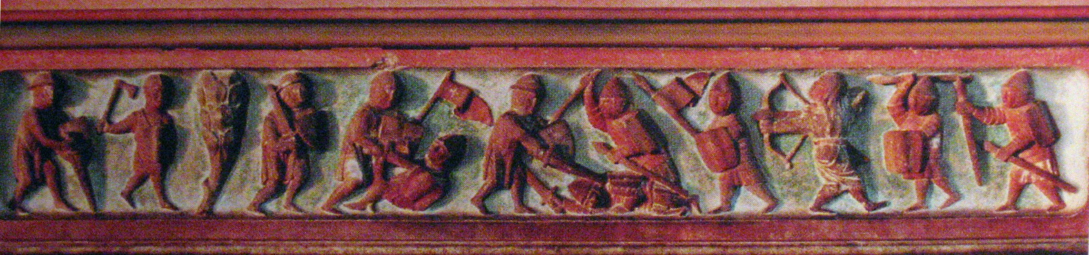 Lithuanians fighting Teutonic Knights.Evolvent of relief.